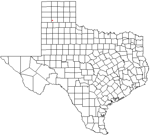 Umbarger, Texas location map; created with the GIMP. Made by User:Acntx.